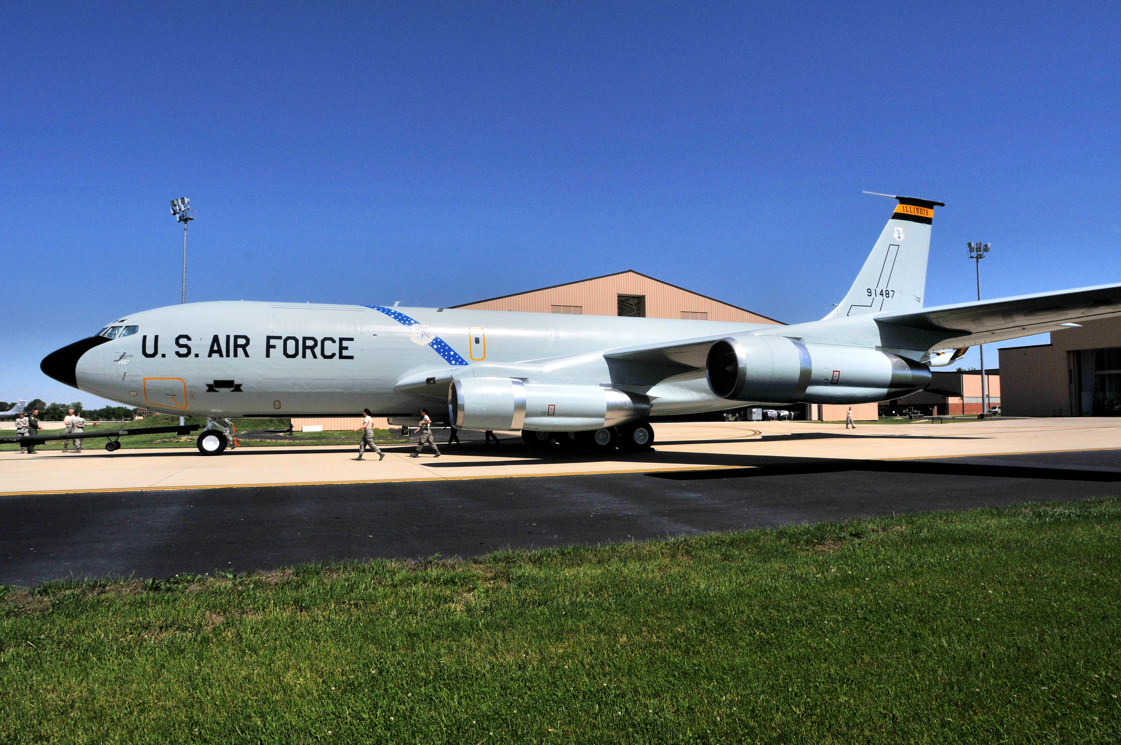 Aircraft #59-1487 is currently scheduled to go on static display at the Illinois Air National Guard facilities within Scott Air Force Base, Illinois. This particular aircraft is one of the original 126th Air Refueling Wing KC-135’s. The paint scheme is the one that was worn by aircraft of the Strategic Air Command toward the latter part of SAC's existence at the end of the Cold War. The distinctive glossy gray carries a bold blue stripe with a "constellation" of stars. The blue stripe and stars is referred to as the Milky Way. This was a historic scheme that represented Strategic Air Command on the KC-135 and bombers and embodied the motto "Peace is Our Profession" at a time when peace was forged through superior fire power.